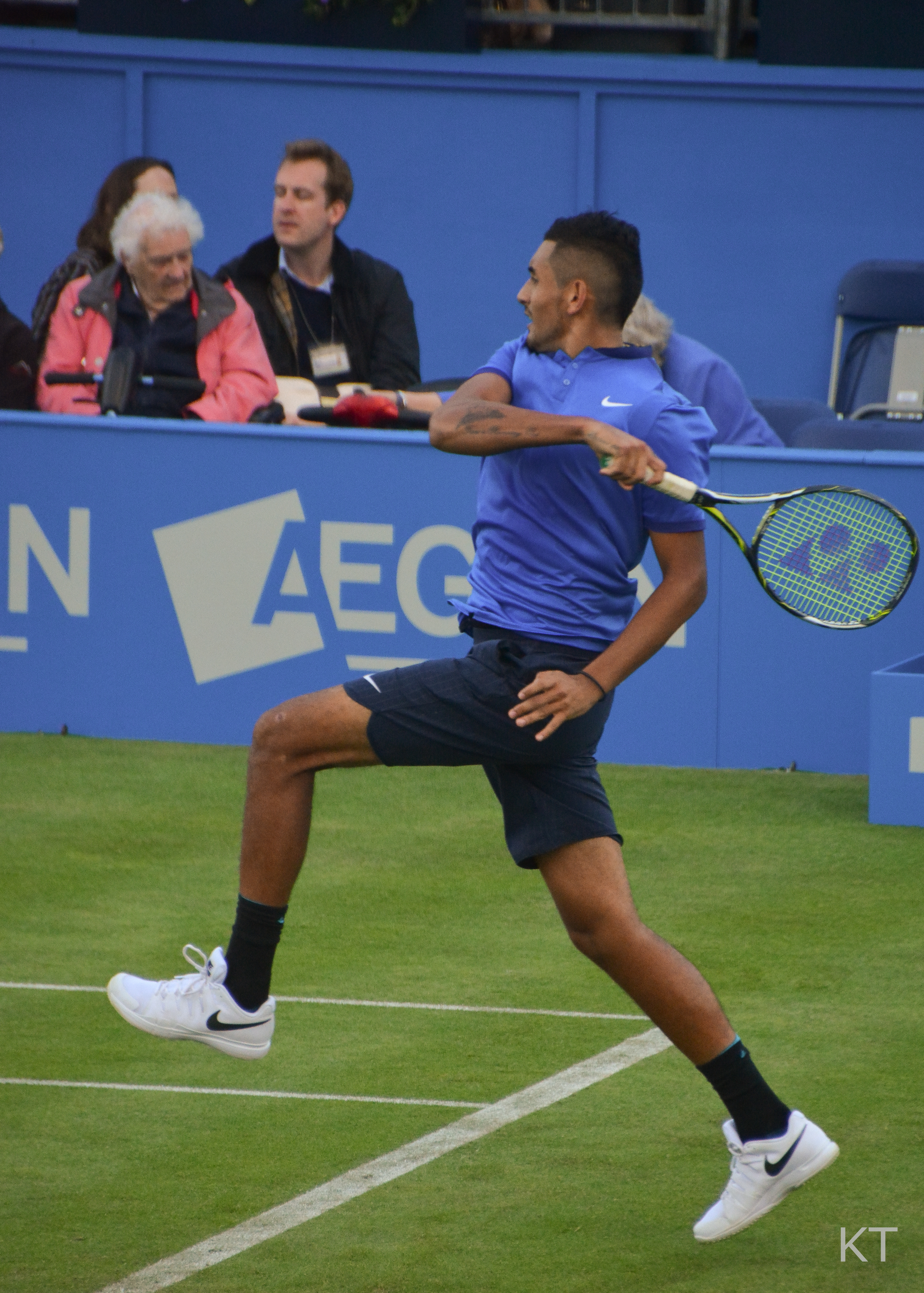 Nick Kyrgios v Milos Raonic in R1 at the Aegon Championships 2016.